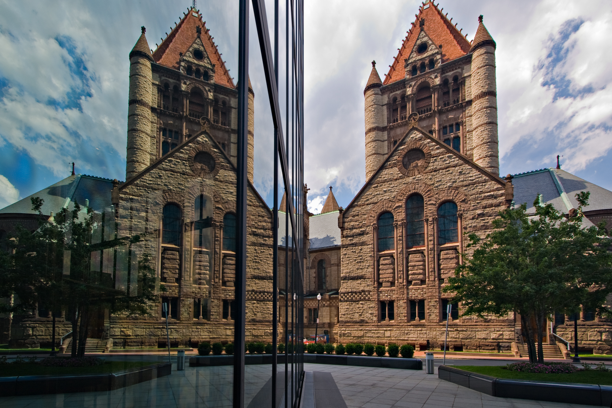 Trinity Church reflected in the façade of the John Hancock Tower. Boston Back Bay. Massachusetts, USA